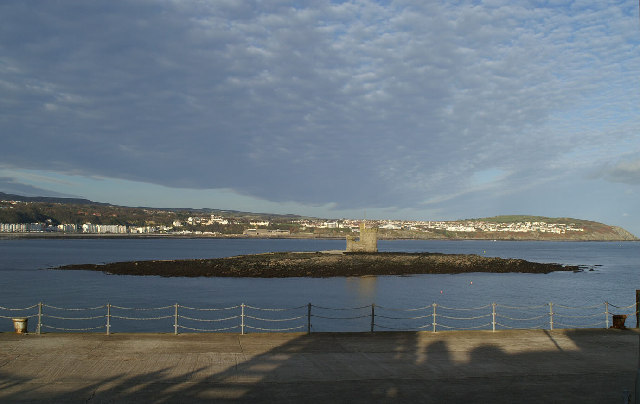 The Refuge on Conister or St. Mary's Rock in Douglas Bay, with Onchan Head behind. It was a perfect, sunny afternoon after a weekend of blustery weather which had seen the Seacat sailings between Liverpool and the island suspended on the Friday.